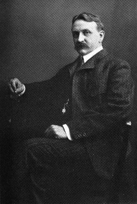 Photograph of Henry Carter Adams